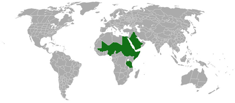 Acacia laeta range map created with a blank map from the Commons, info from ILDIS LegumeWeb and the GIMP.